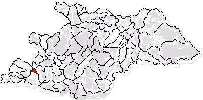 Map of Sălsig commune in Maramures County